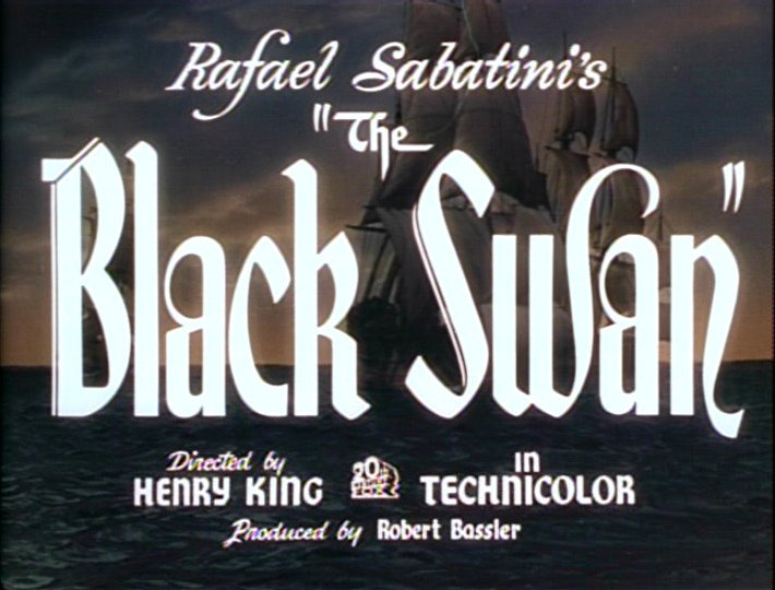 A screenshot from the trailer for the film The Black Swan.